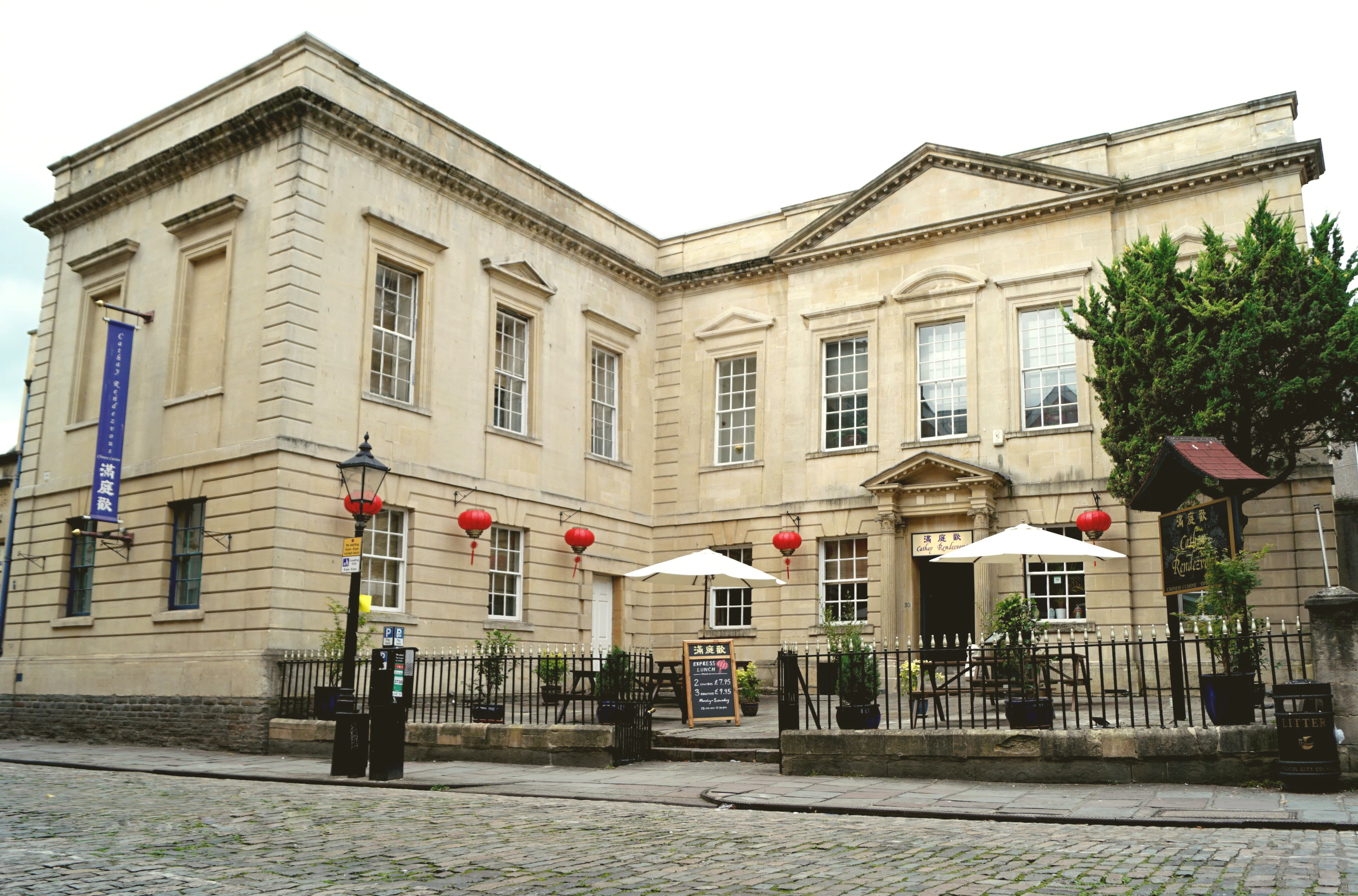 Photo taken in 2017 August, outside viewing of Cathay Rendezvous Chinese Restaurant from King Street, Bristol